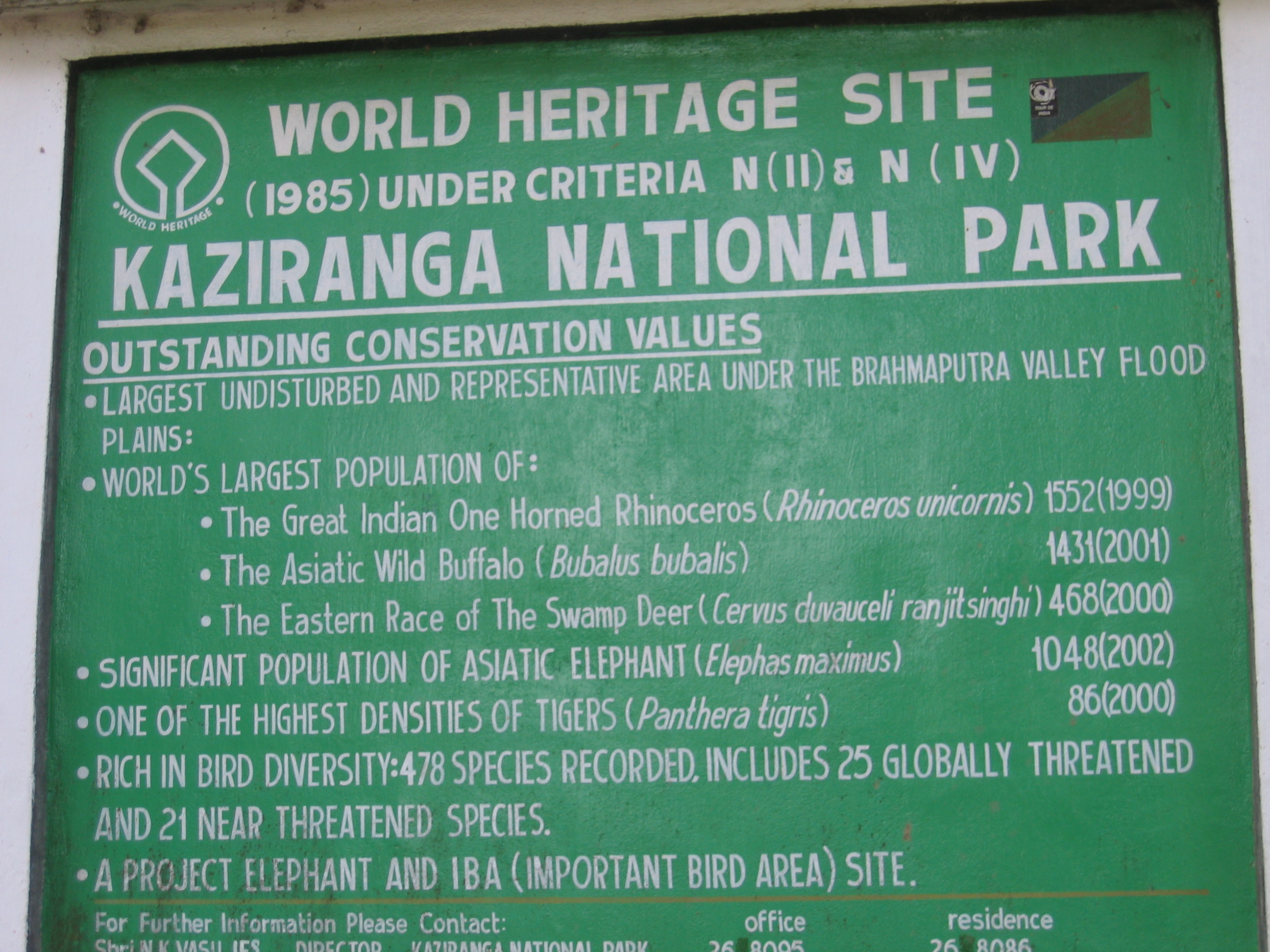 A board proclaiming the biological heritage of the Park. A board proclaiming the biological wealth of Kaziranga National Park. Kaziranga National Park, created as a result of advocacy by Hazarika. ગુજરાતી: આ ઉદ્યાનની જૈવિક ધરોહર જાહેર કરતું પાટીયું.